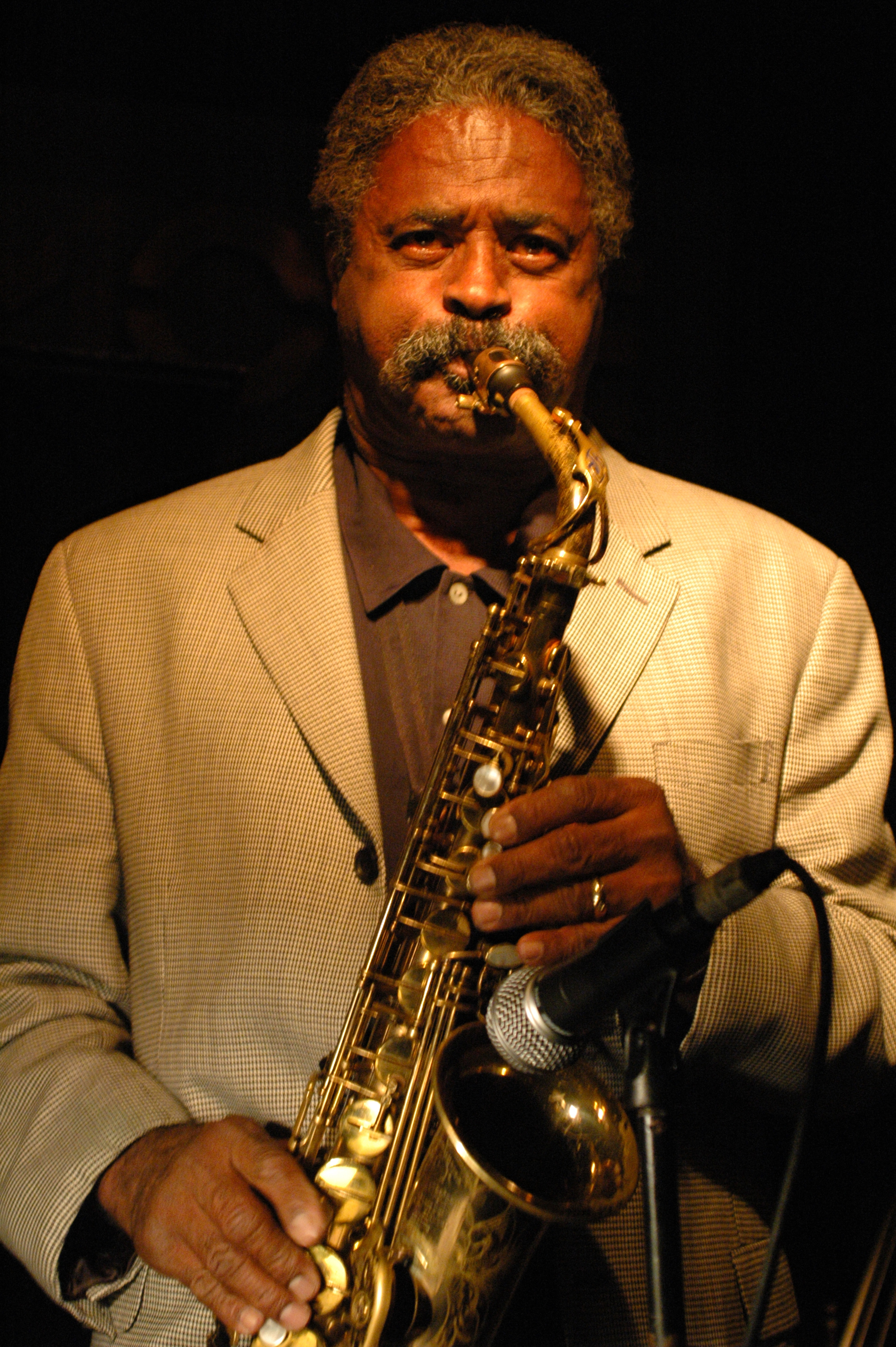 Charles McPherson (November 10, 2006, 106th and Broadway)